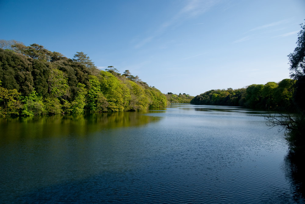 Stackpole Lily Ponds, Pembrokeshire.